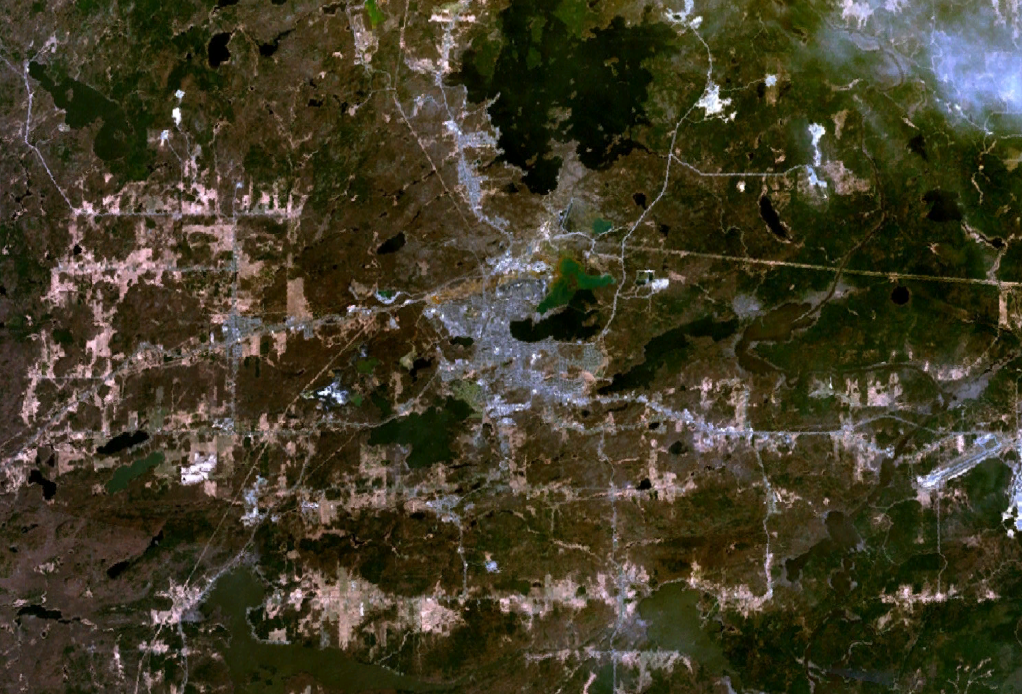 Landsat 7 Visible Color image of Rouyn Noranda QC from an altitude of 25 km.